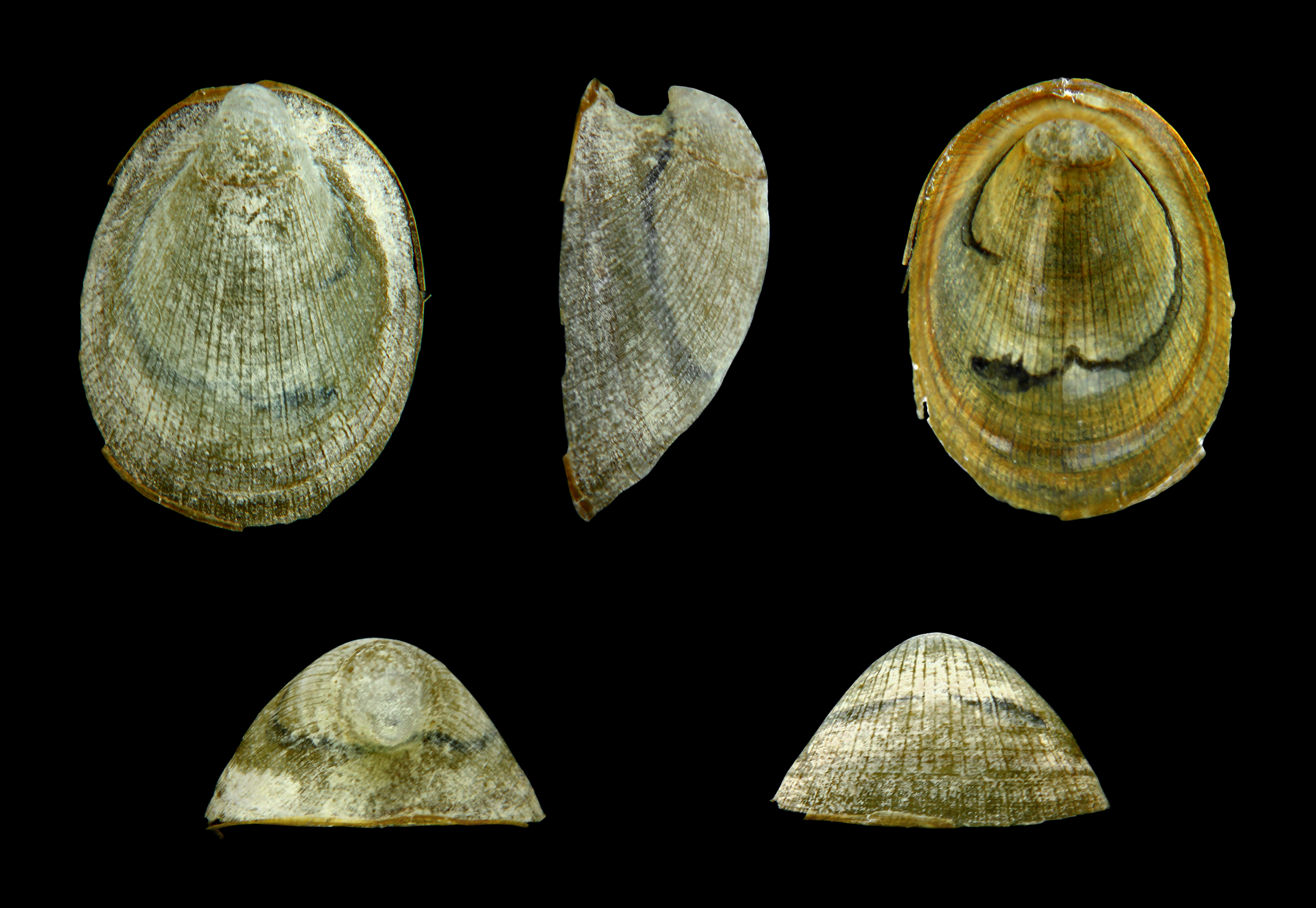 Striated Limpet, Length 0.5 cm; Originating from the Barranco de Masca, Tenerife, Canary Islands, Spain; Shell of own collection, therefore not geocoded. Dorsal, lateral (right side), ventral, back, and front view.